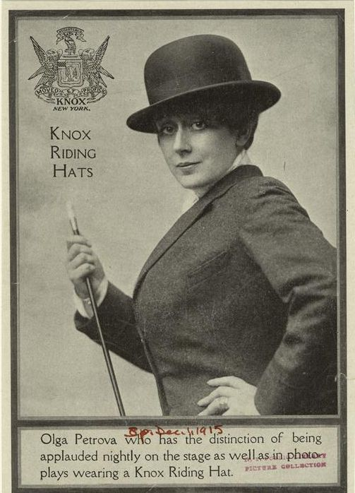 Olga Petrova who has the distinction of being applauded nightly on the stage as well as in photo- plays wearing a Knox Riding Hat